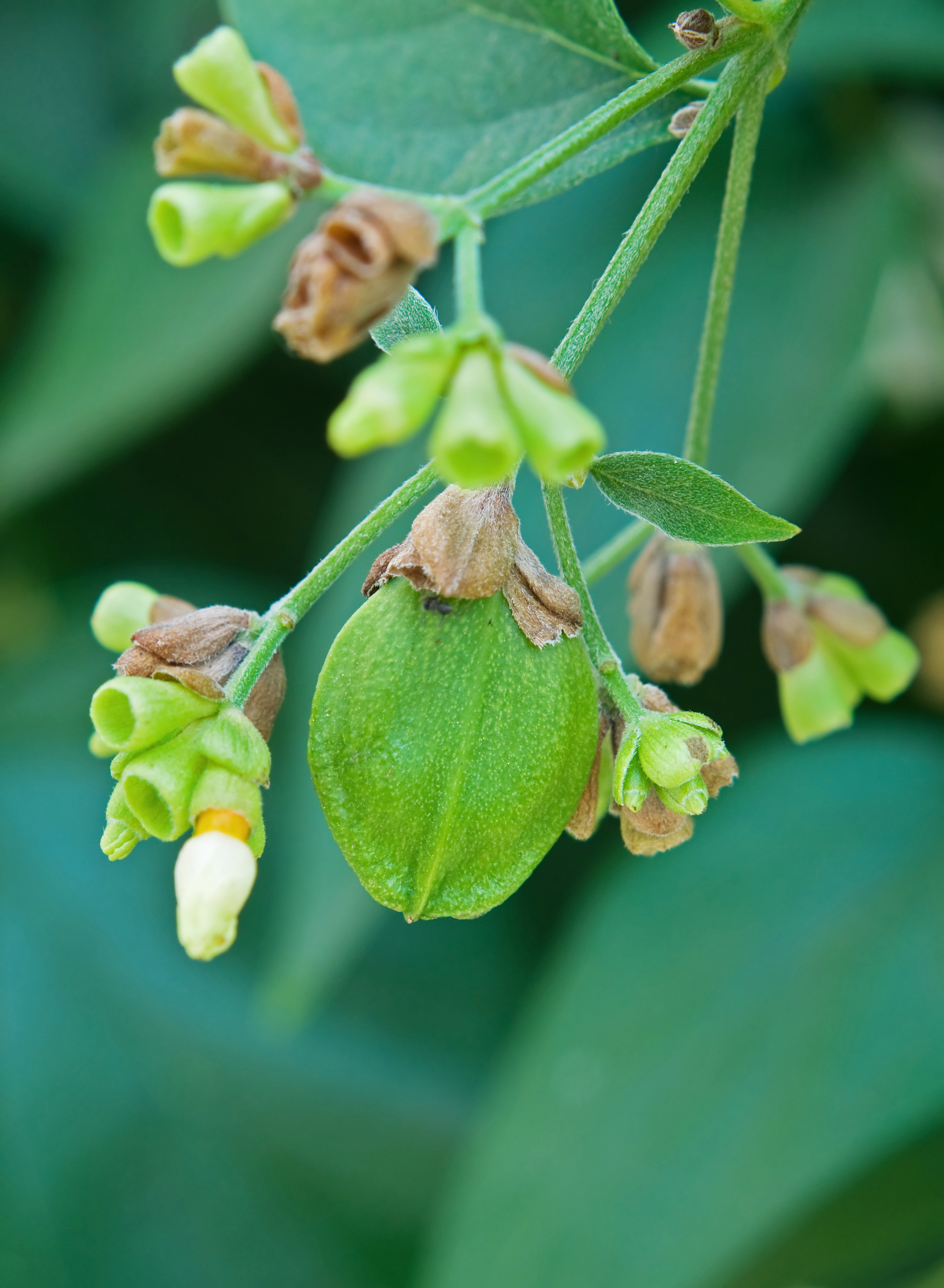 Nyctanthes arbor-tristis fruit. Taken at Burdwan, West Bengal, India.